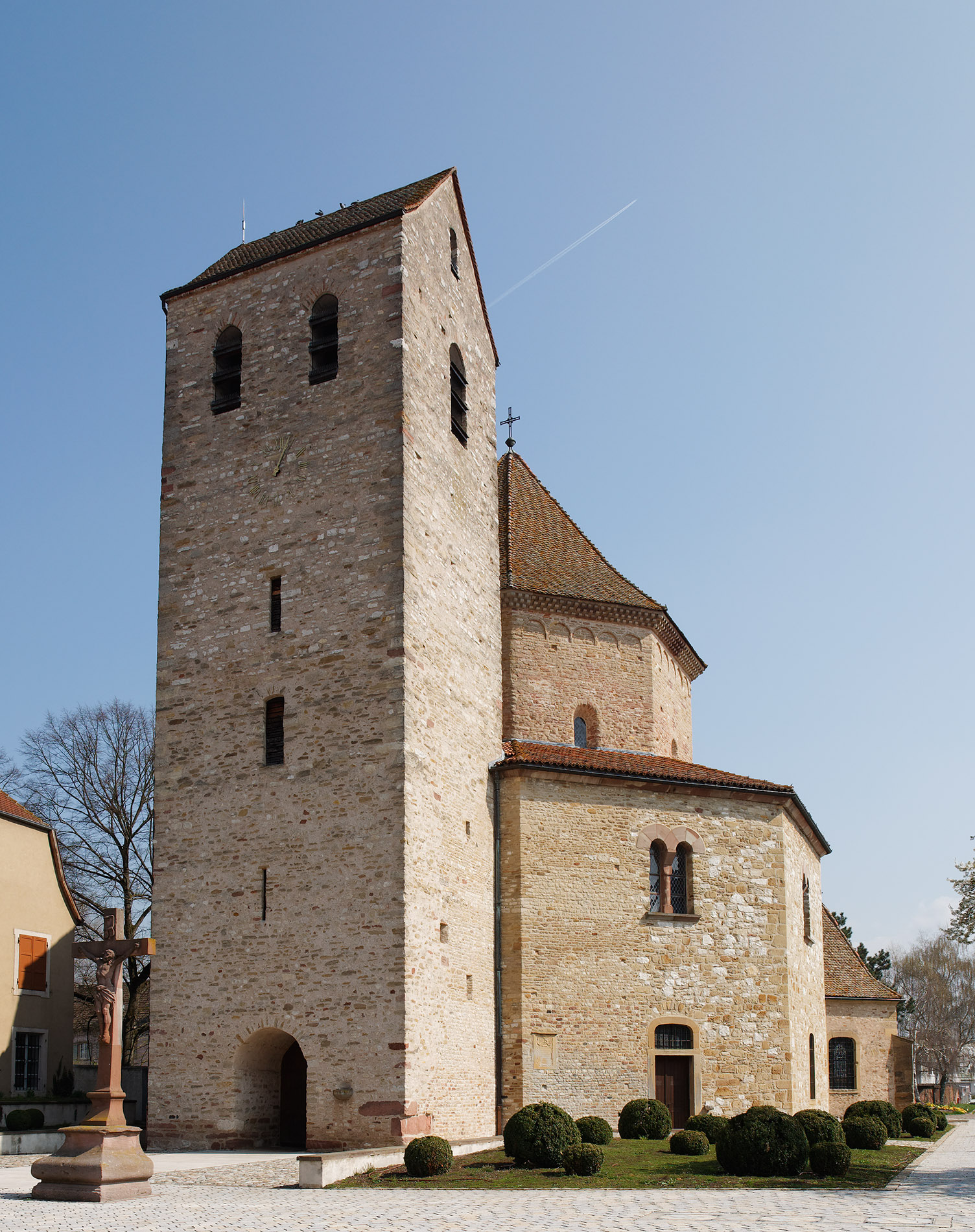 The tower of the Romanesque church of Saint-Pierre-et-Saint-Paul at Ottmarsheim, Haut-Rhin, Alsace, France, based on the octagonal plan of the Palatine Chapel of Aachen. Formerly an abbey-church, it is devoted by the pope Leo IX in 1049. View from the West.